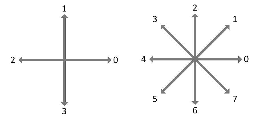 Orientation numbers for 4-directional and 8-directional chain codes